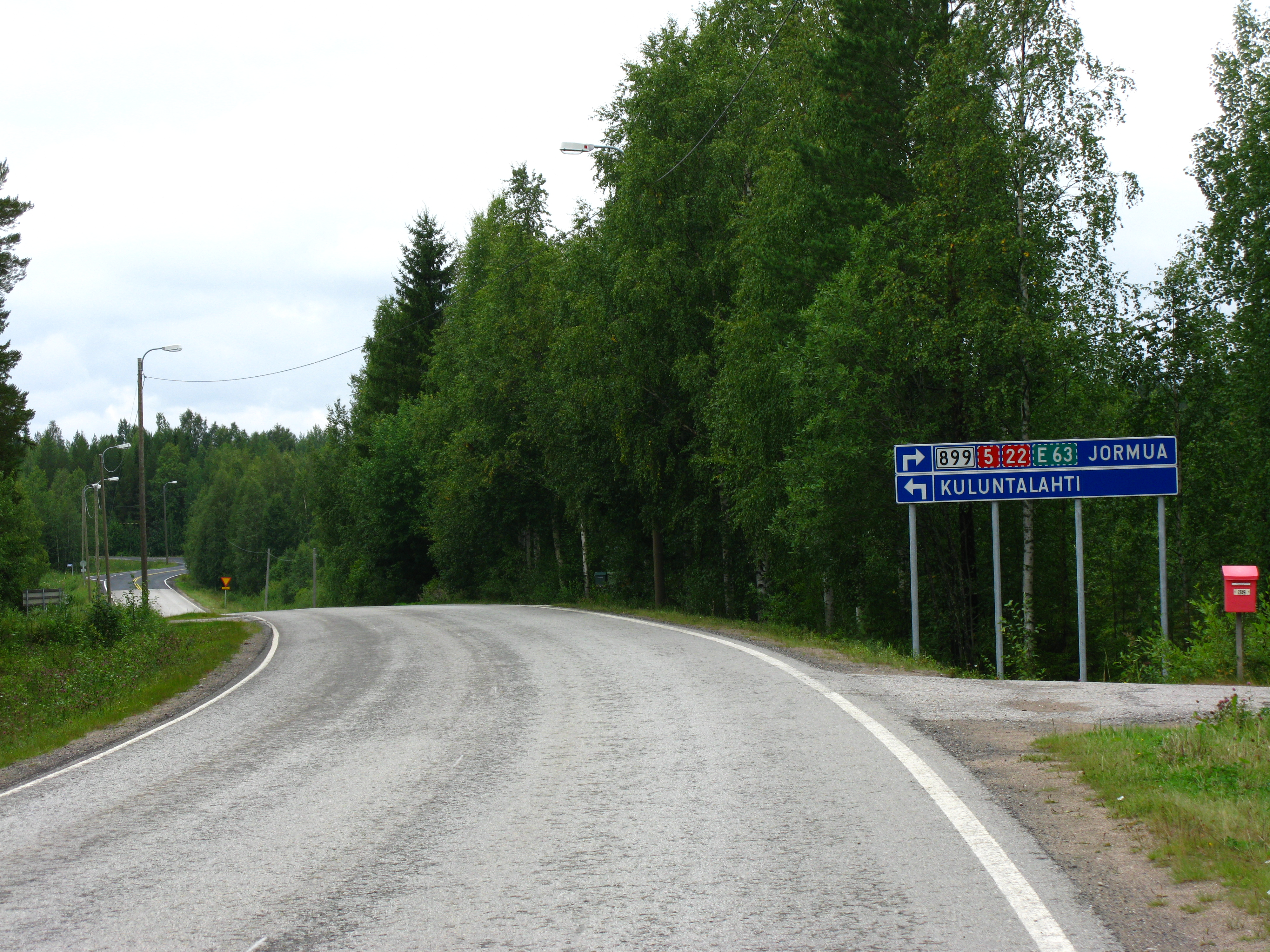 The Finnish regional road 899 at Jormua towards North-West, the end of the road.